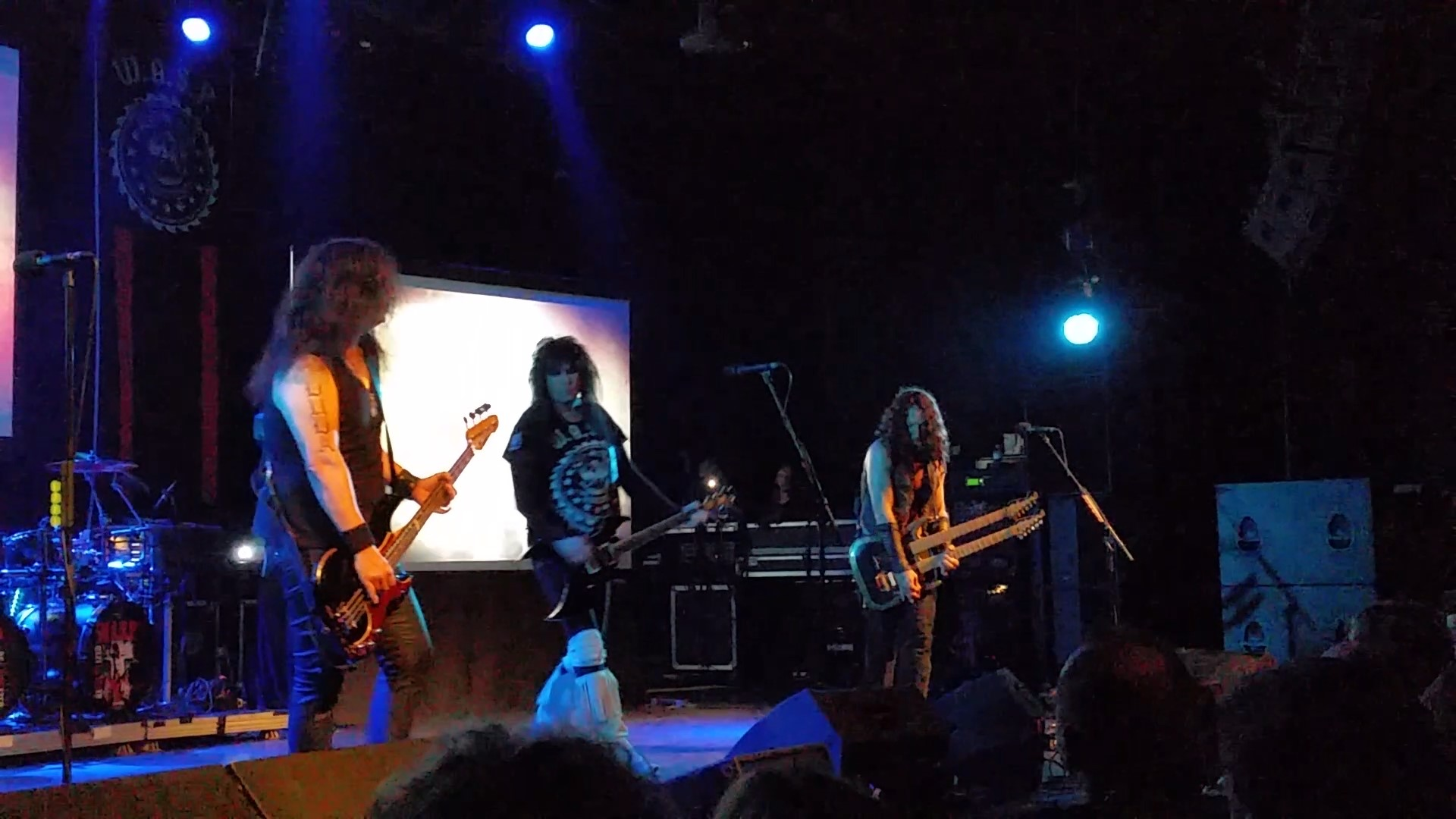 WASP performing at Trix Hall in Antwerp, Belgium, on October 28, 2017.